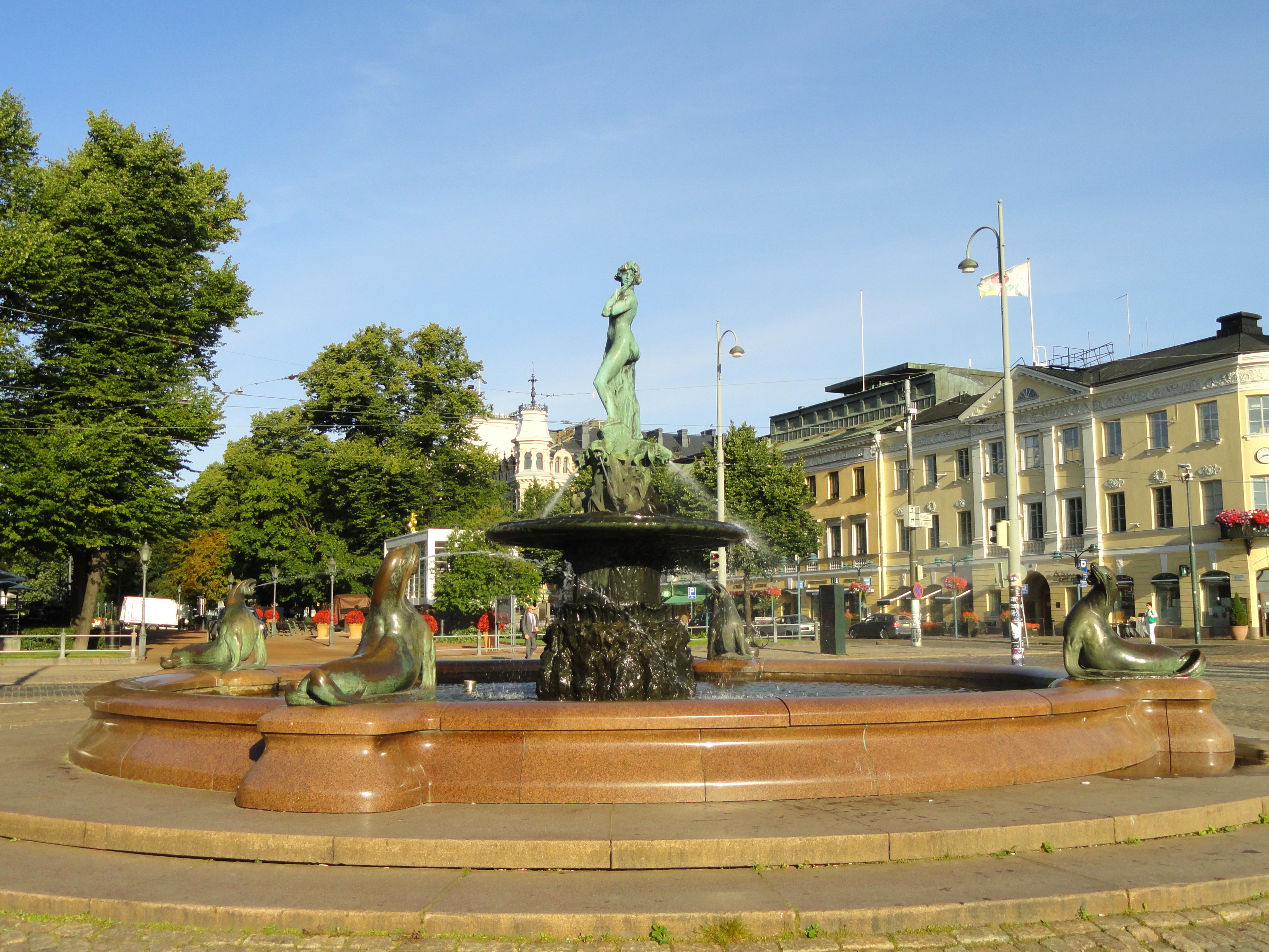 Havis Amanda, Esplanadi, Helsinki, Finland. Sculptor: Ville Vallgren. This artwork is in the public domain because the artist died more than 70 years ago.